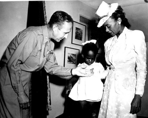 Brig. Gen. Robert N. Young, Commanding General of the Military District of Washington, assists Melba Rose, aged 2, daughter of Mrs. Rosie L. Madison, in viewing the Silver Star posthumously awarded her father 1st Lt. John W. Madison, of the 92nd Infantry Division, who was killed in action in Italy.